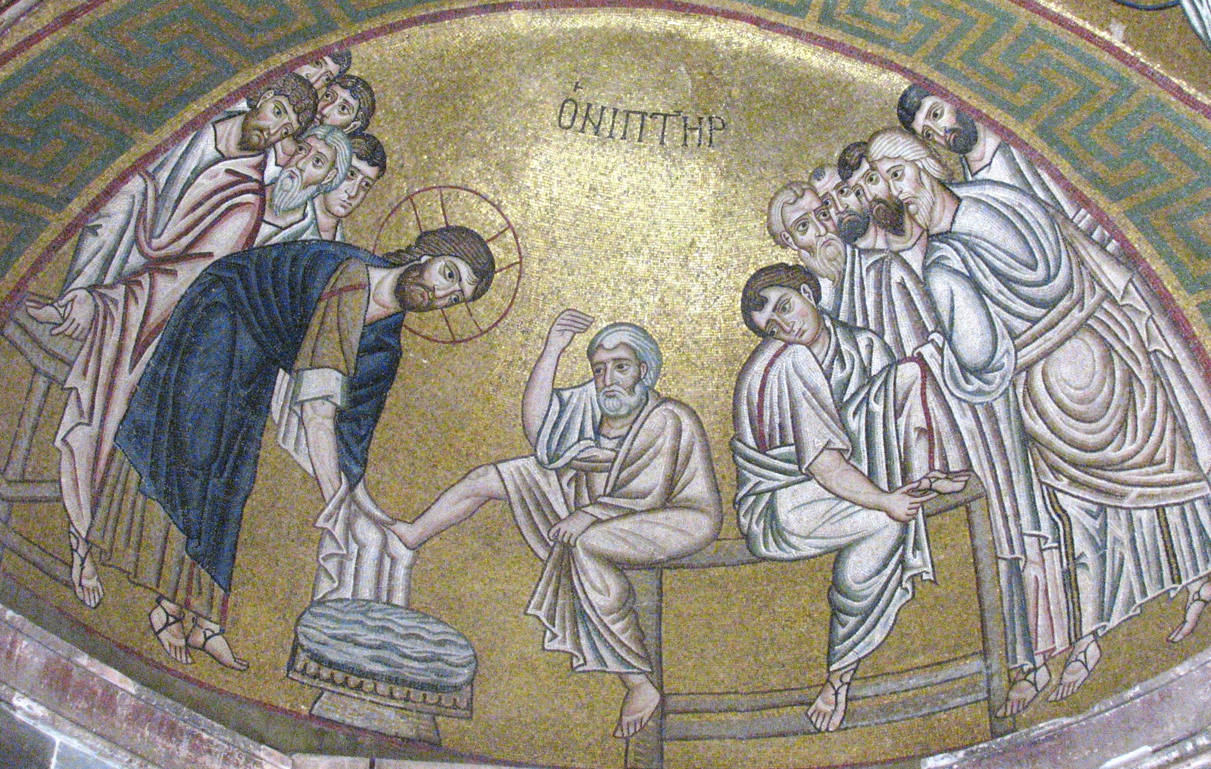 Christ washing the feet of the Apostes. Mosaics in monastery of Hosios Loukas.